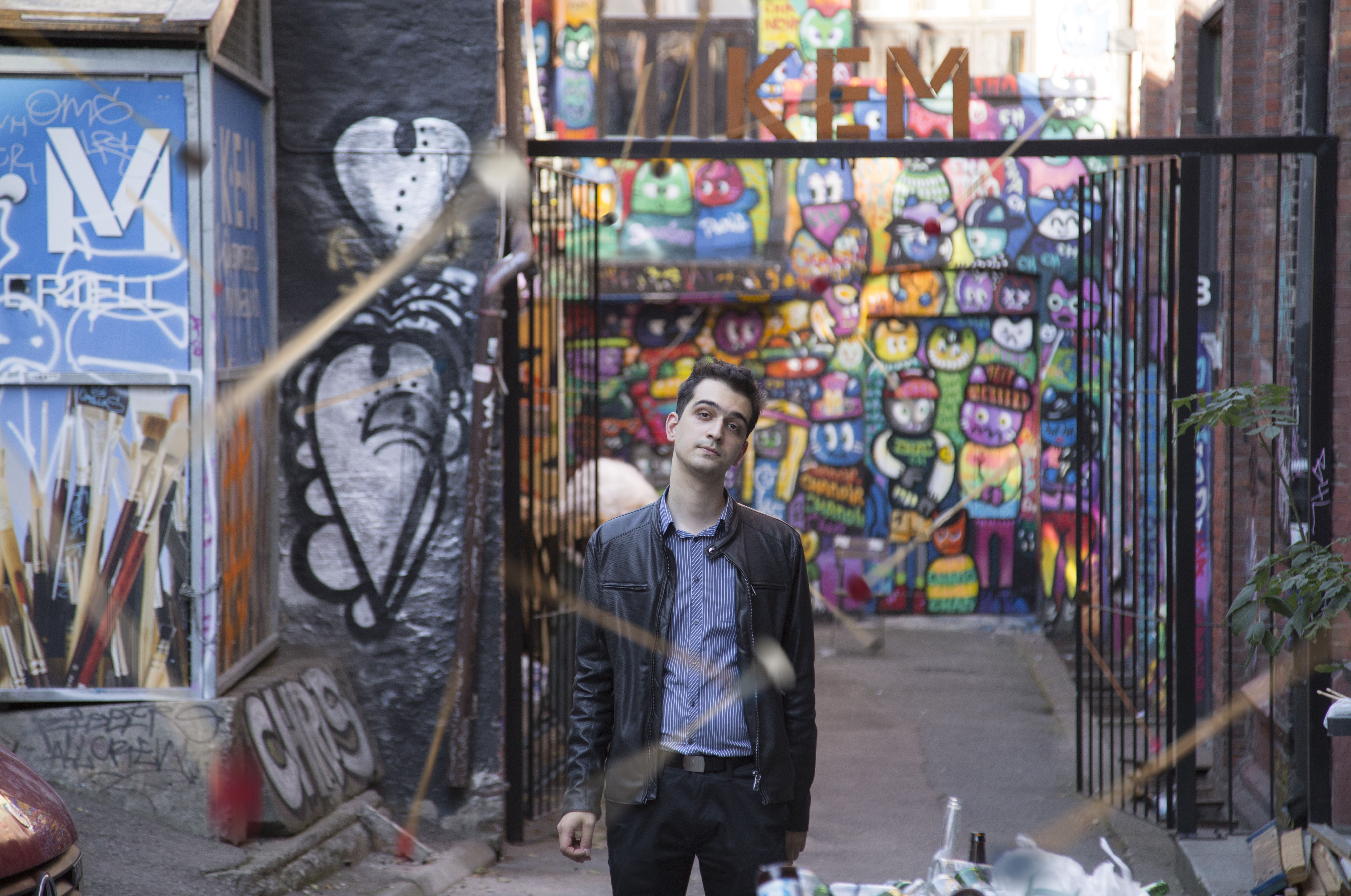 Akaki (Koka) Nikoladze, Oslo 2014